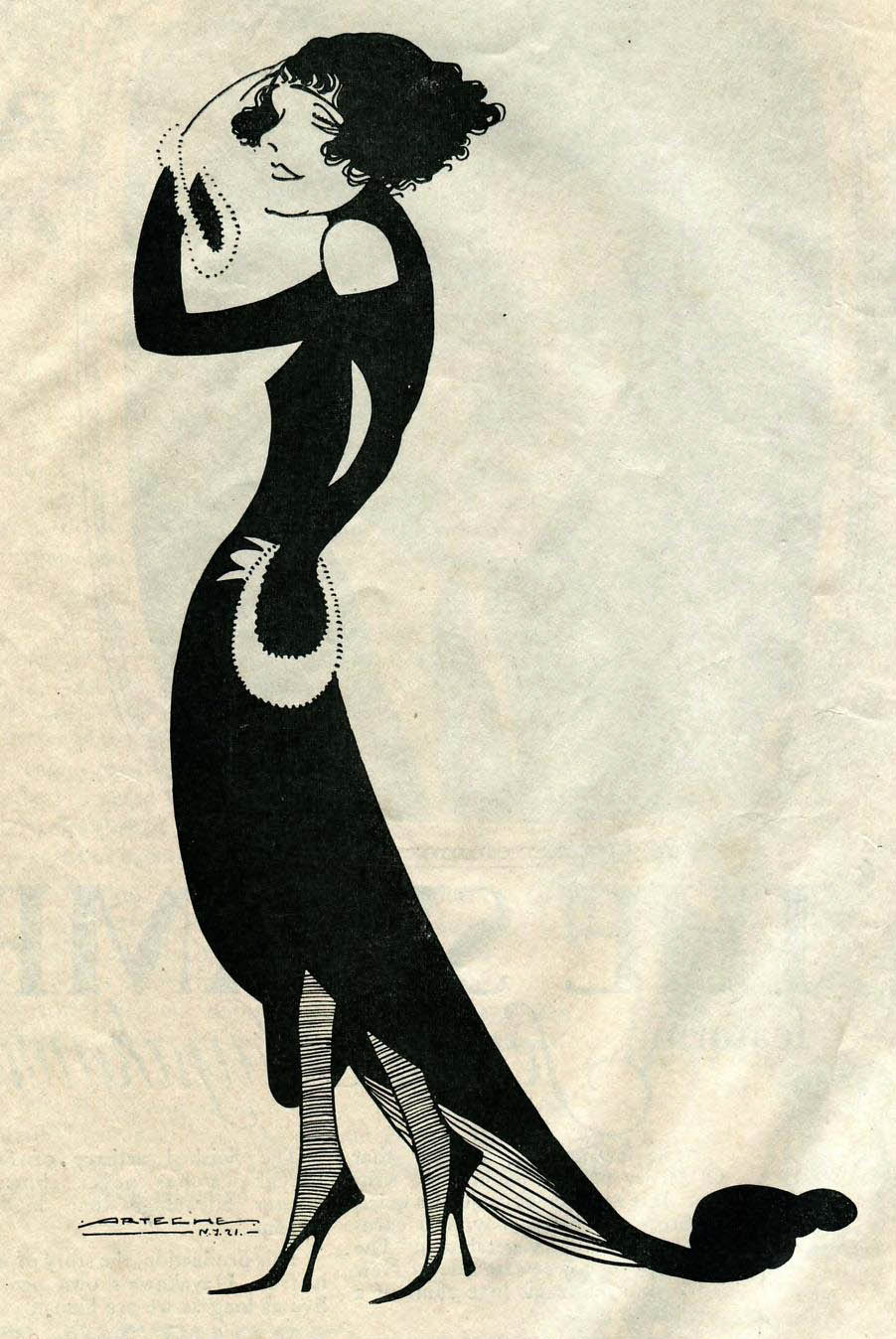 Elsie Ferguson in Footlights. Filmplay Journal, January 1922